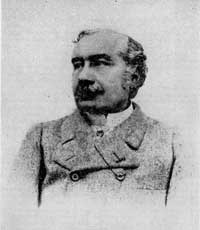 François Lecoq de Boisbaudran, discoverer of gallium, samarium, and dysprosium (died 28 May 1912)